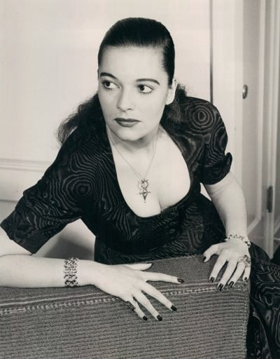 french actress Kerima - publicity still (without marks and cropped)